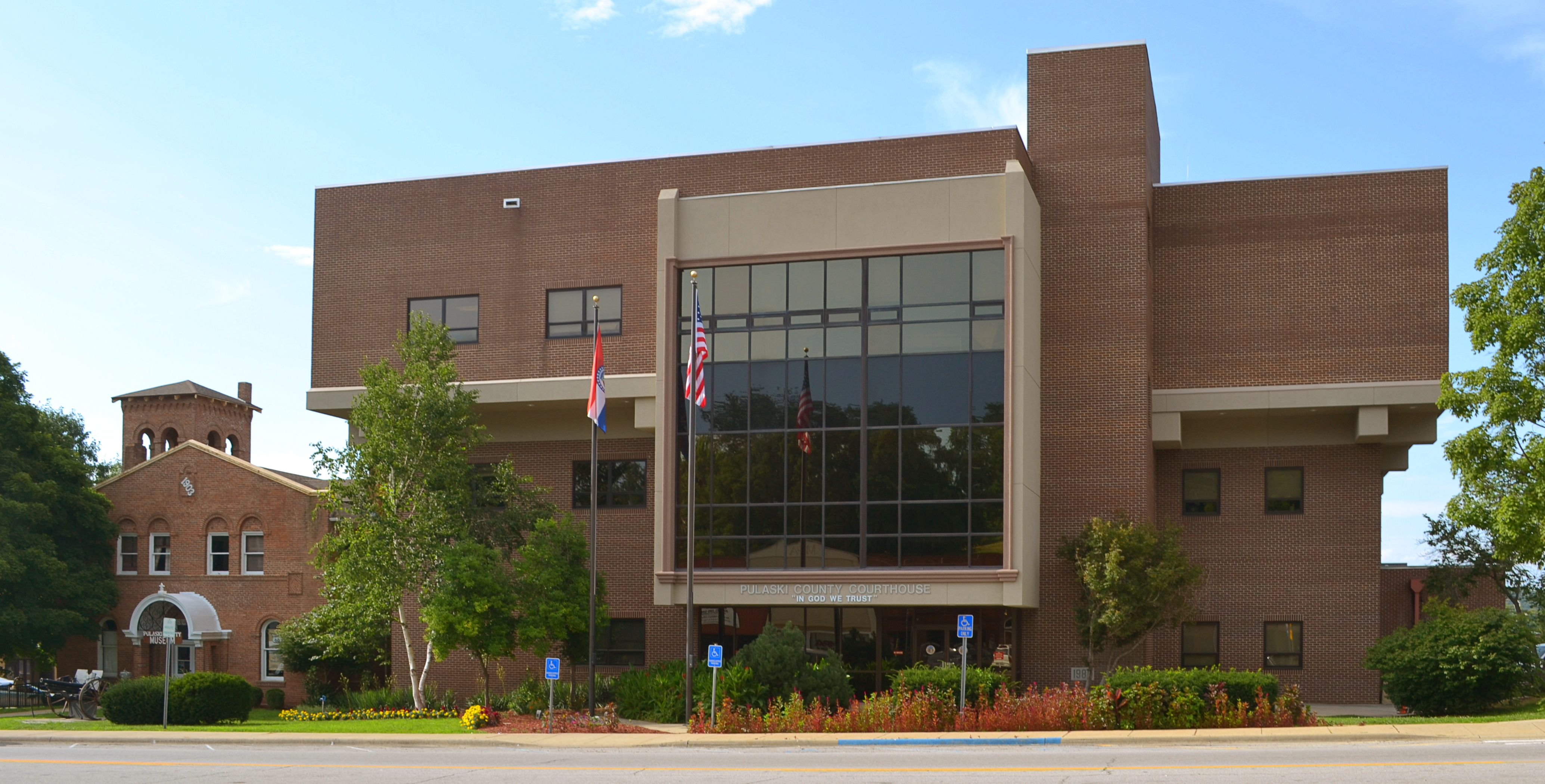 Pulaski County, Missouri courthouse. The historic old courthouse, now county museum, is on the left.